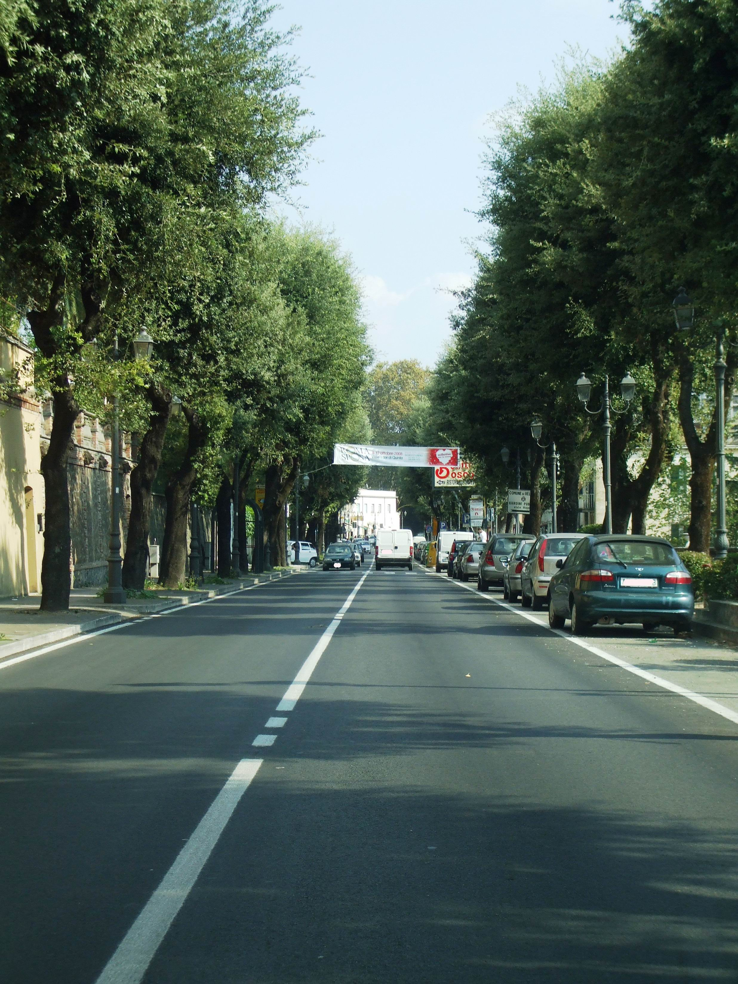 Velletri - Via Appia (Via Roma)